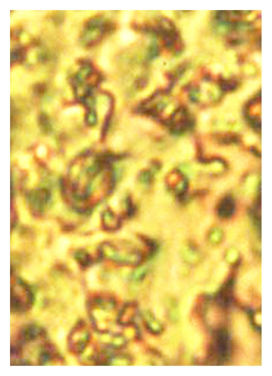 Metatrypanosomes of Trypanosoma antiquus in a fecal droplet of the Dominican amber Triatoma dominicana